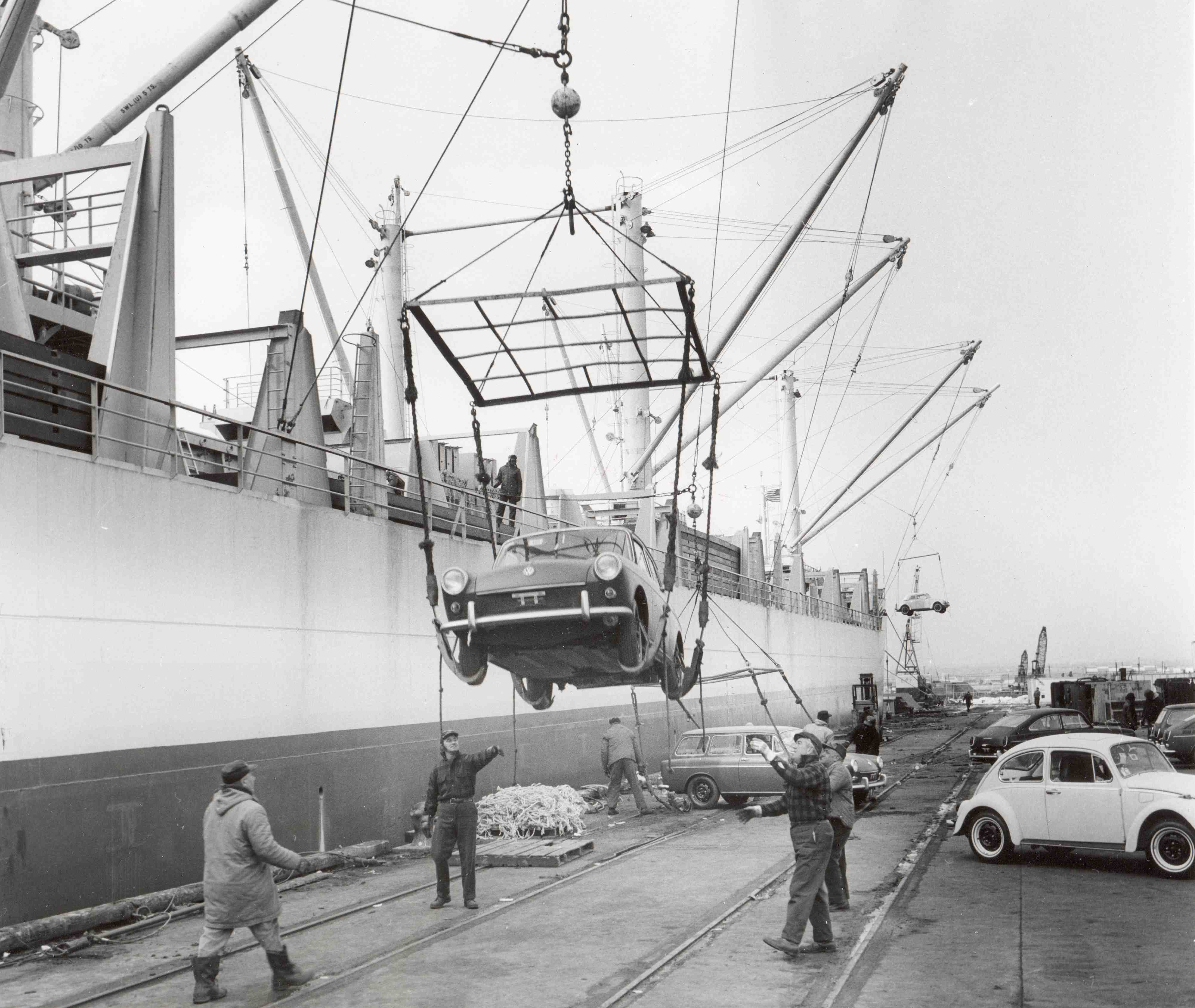 The loading of cars in 1969